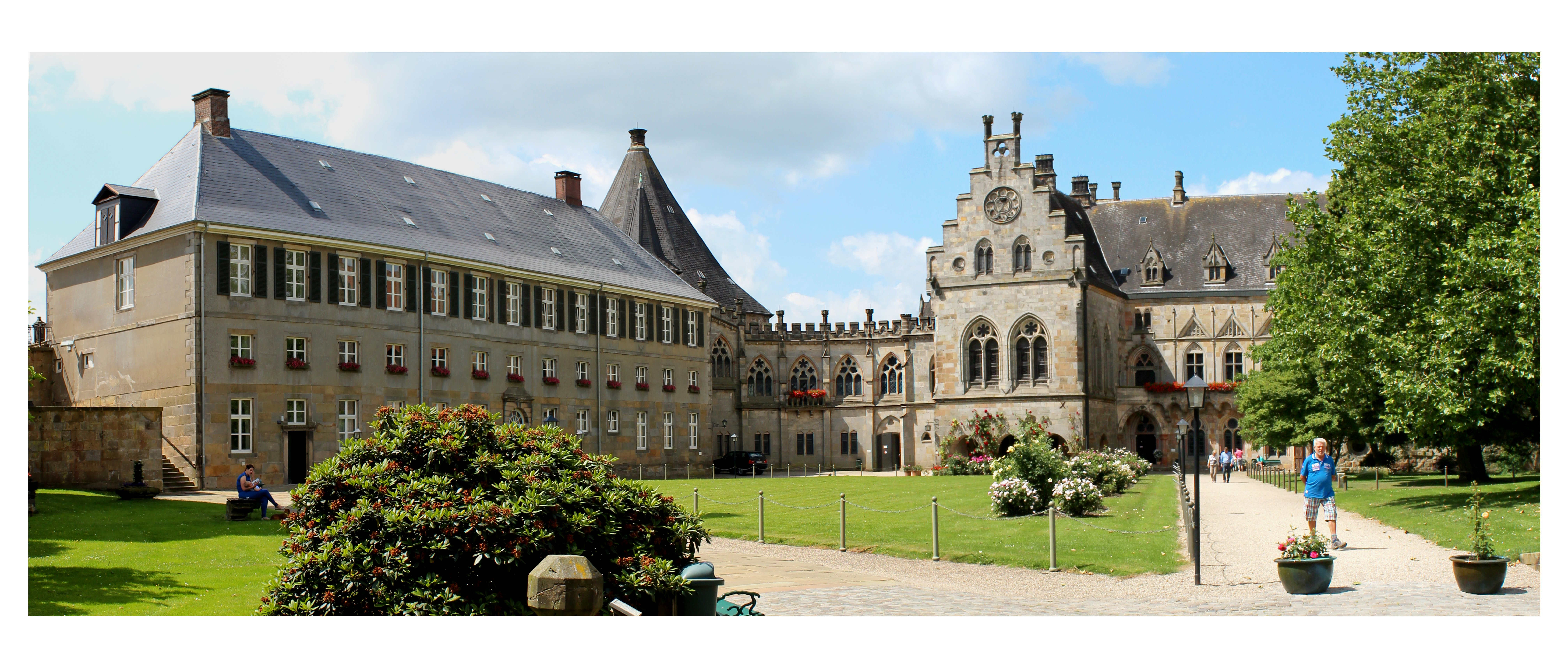 The courtyard of Bad Bentheim